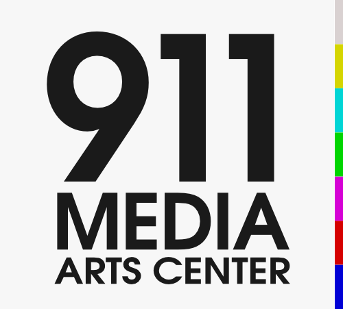 2011 Logo for the Seattle based 911 Media Arts Center